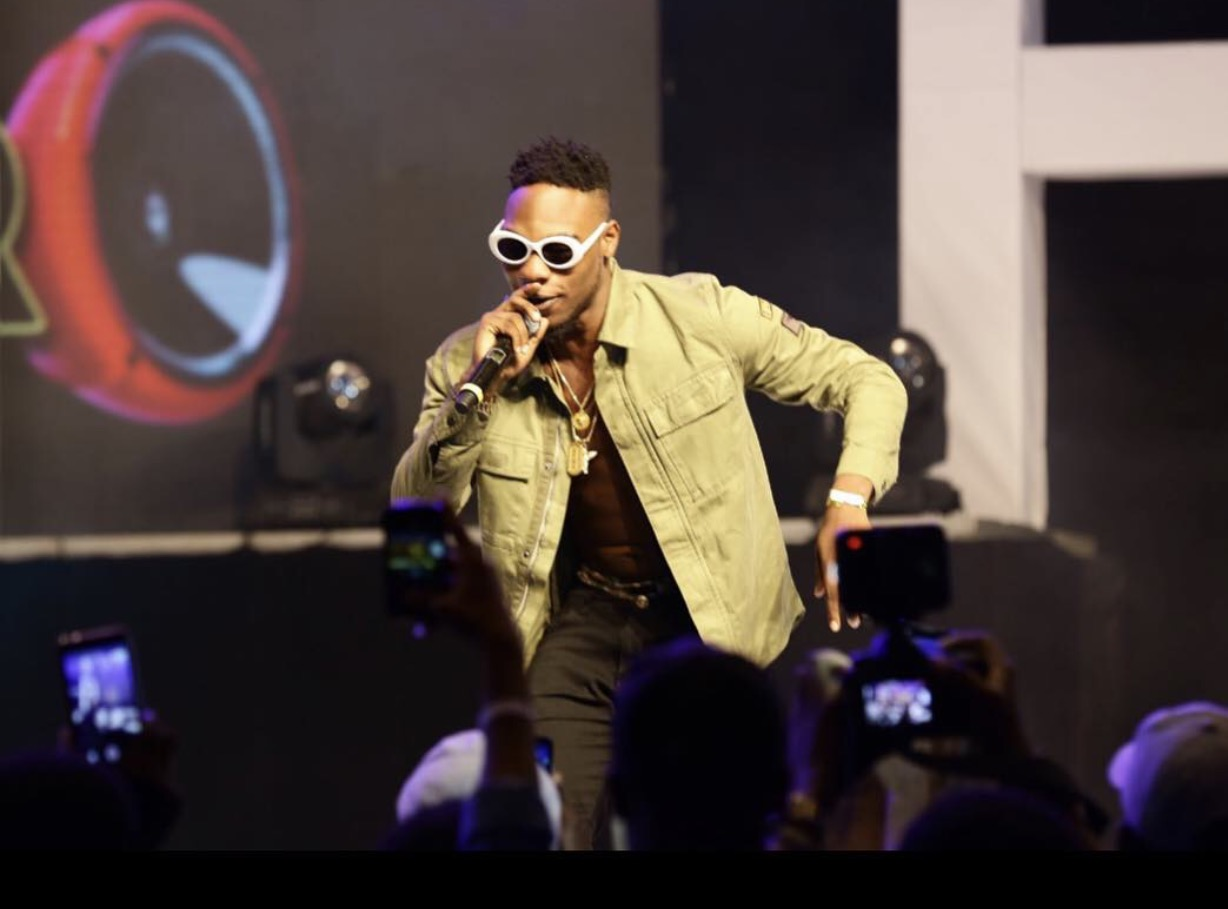 L.A.X Musician